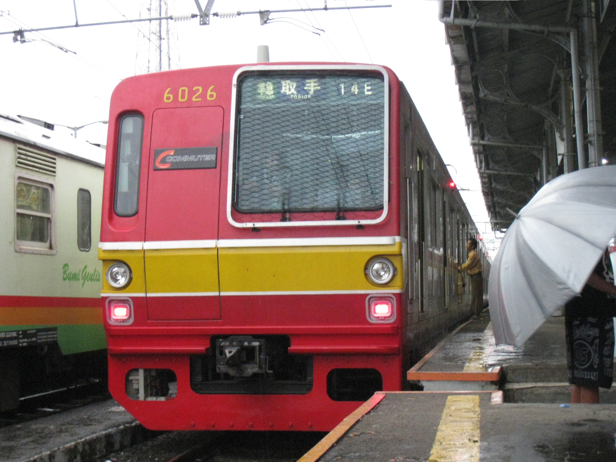 Former Tokyo Metro 6000 series EMU set 6126F operated by Indonesian Railways, Jakarta, Indonesia